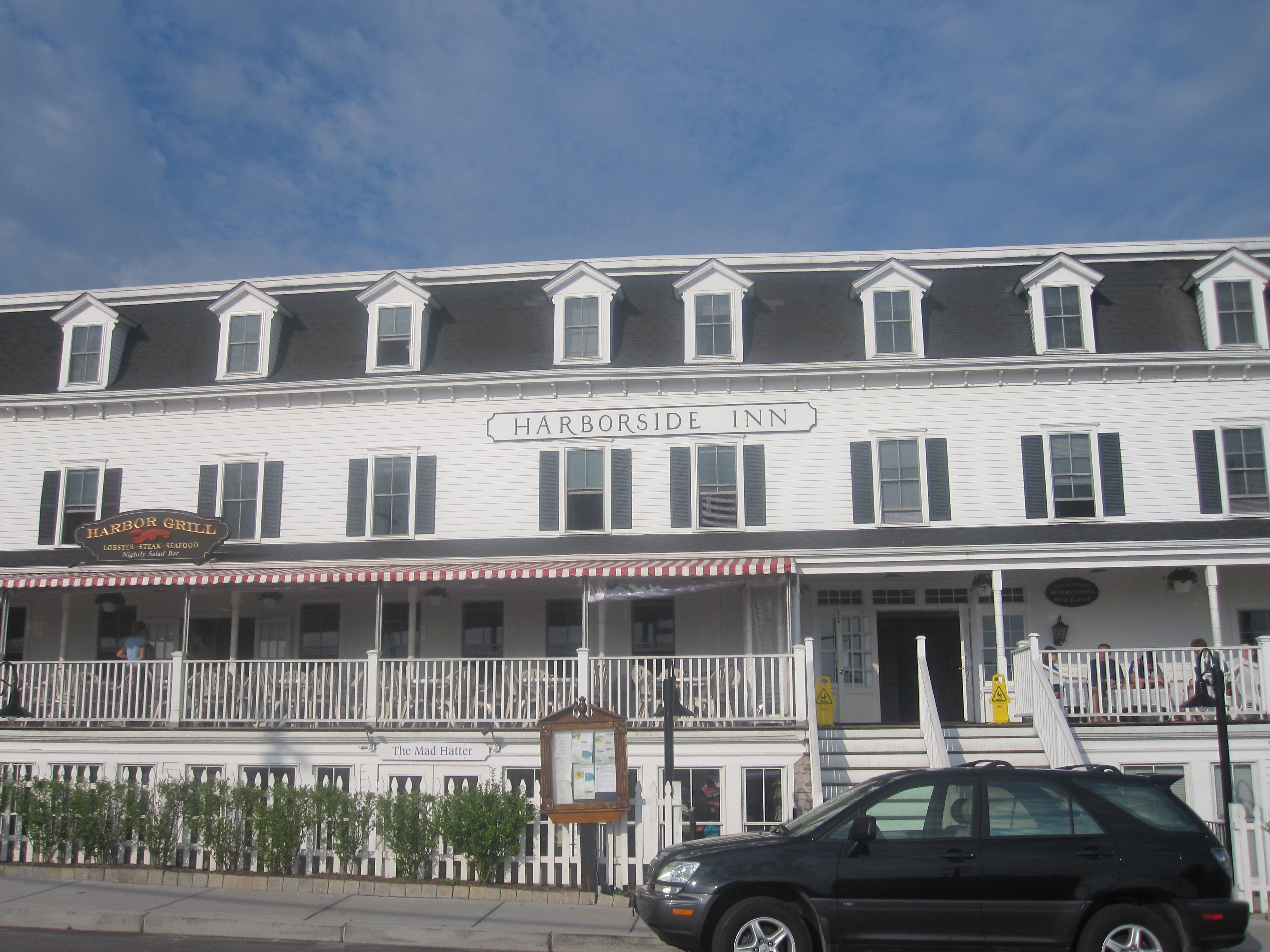 Harborside Inn on Block Island — in New Shoreham, Rhode Island.